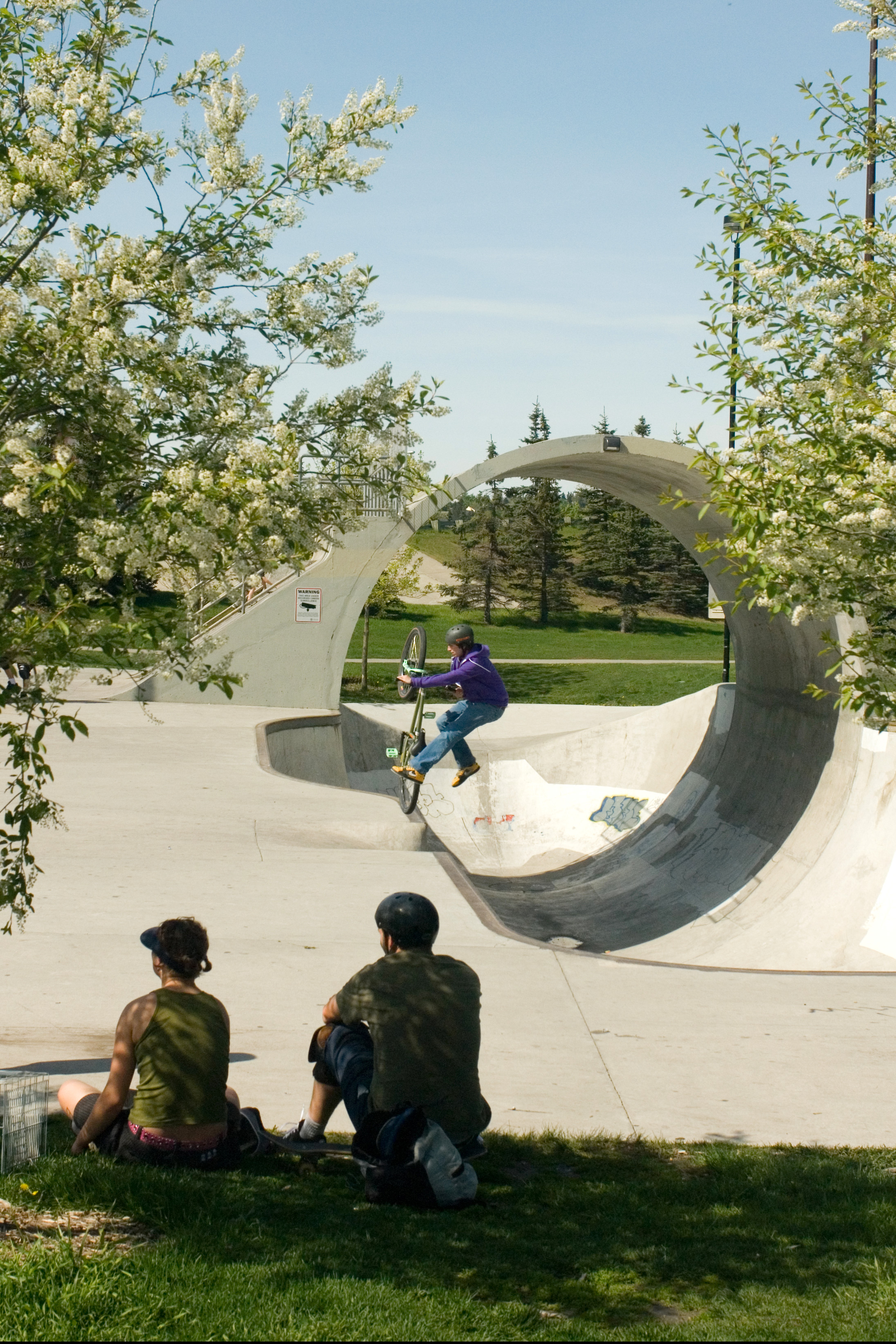 The Pipe at Millennium Park in Calgary, Alberta. Photo by Chuck Szmurlo taken May 27, 2007 with a Nikon D200 and a Nikon 28-70 f2.8 lens.